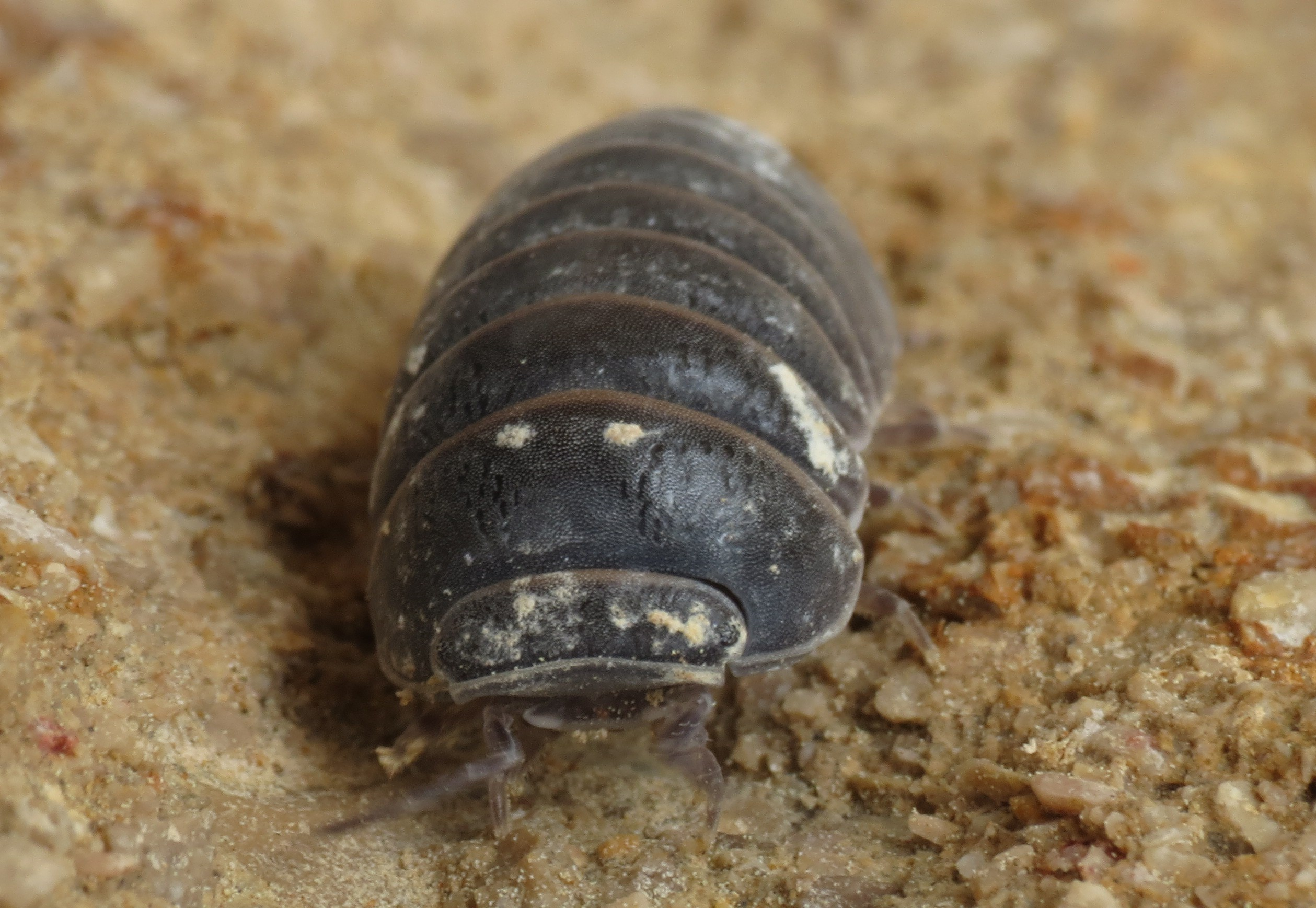 Armadillo officinalis Duméril, 1816, Roda de Barà, Spain, 8/9 May 2013 Broad telson indicates Armadillo. Spain has two species ( A. officinalis fits and seems widely recorded. There is much less information on A. hirsutus but it does indeed seem from its original description (Die Thiere Andalusiens, page 421) to have hairs on the head and along the dorsum.